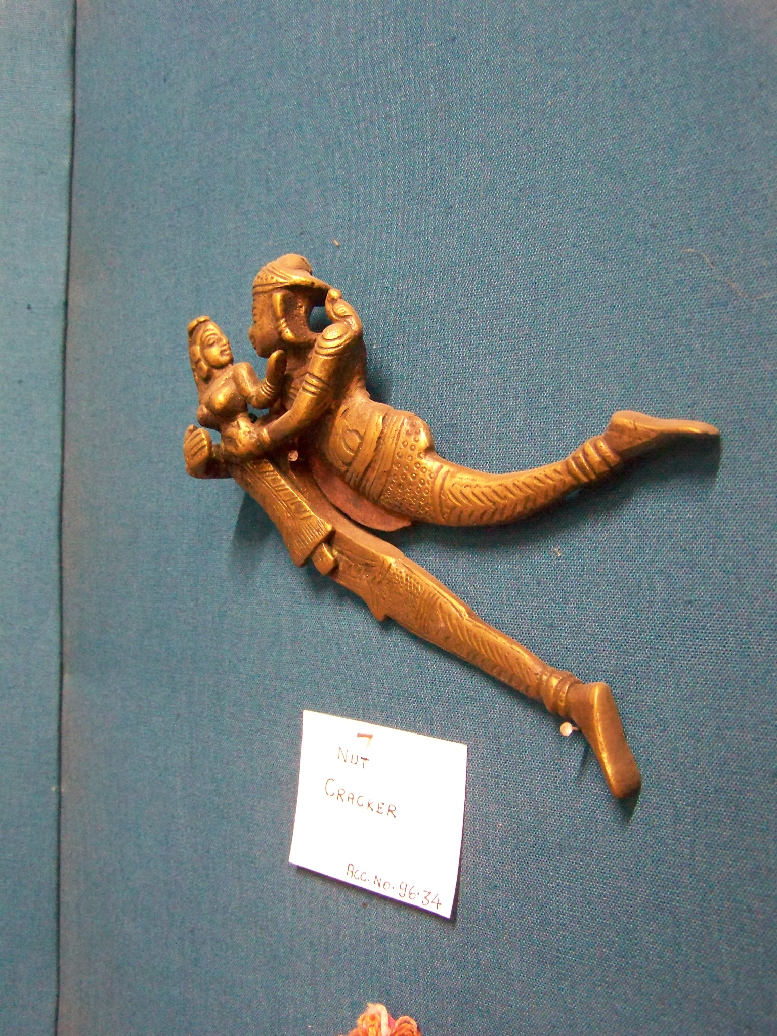 A nutcracker